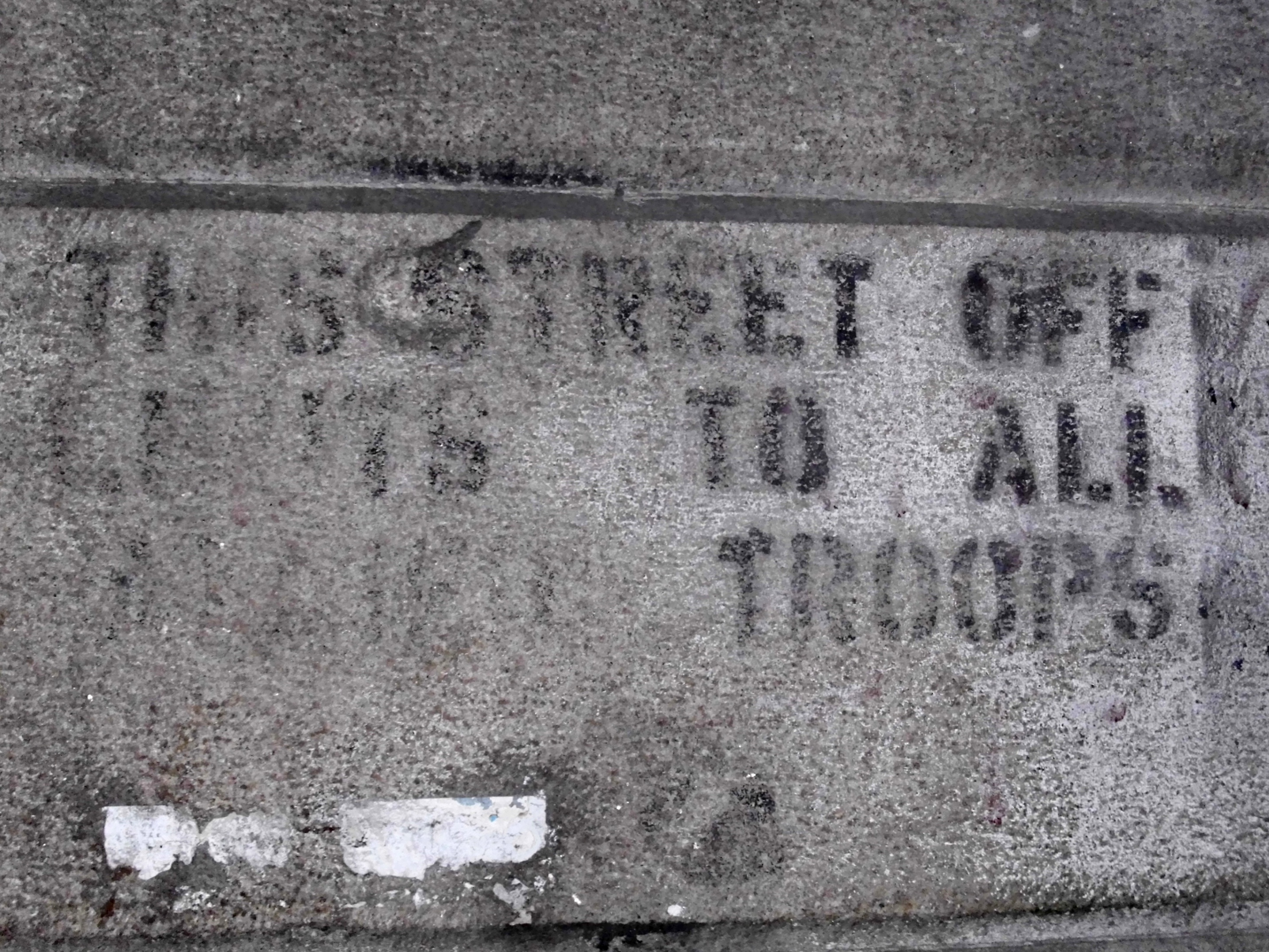 A warning signal in Genoa downtown, just after the end of WWII, reading This street off limit to all allied troops